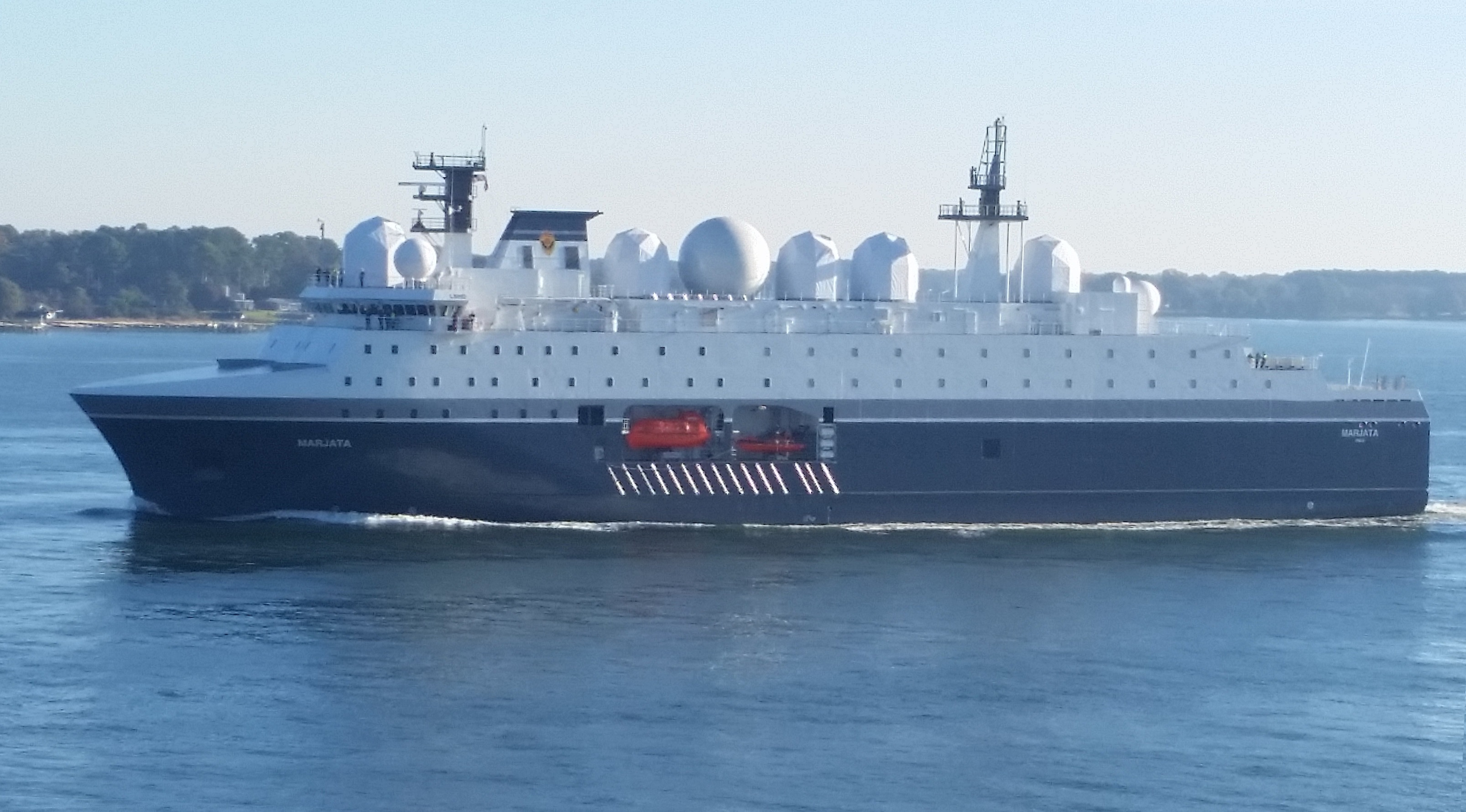 Marjata IV going up York River to Naval Weapons Station on November 3, 2015